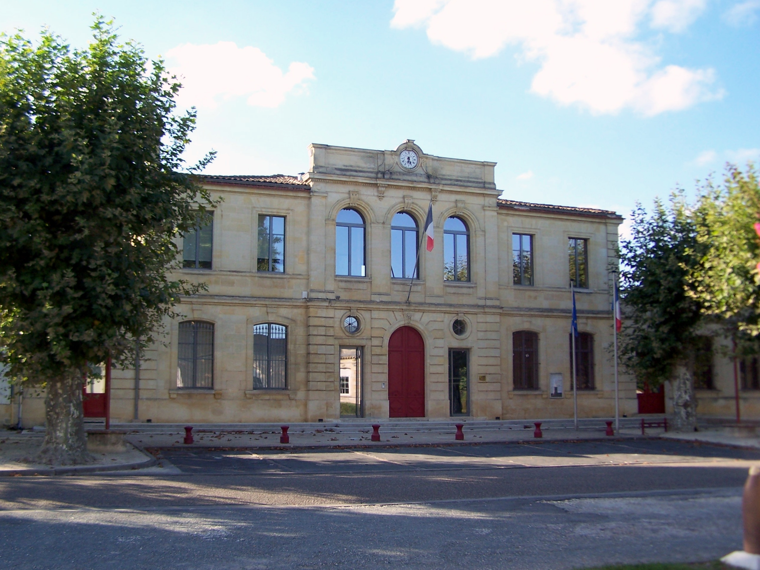 Train station of Beautiran (Gironde, France)